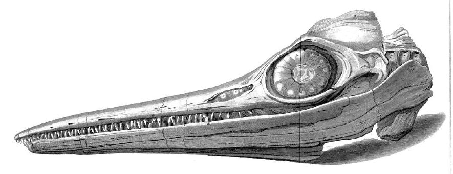 Drawing of the skull of Temnodontosaurus (originally Ichthyosaurus) platyodon found by Joseph and Mary Anning